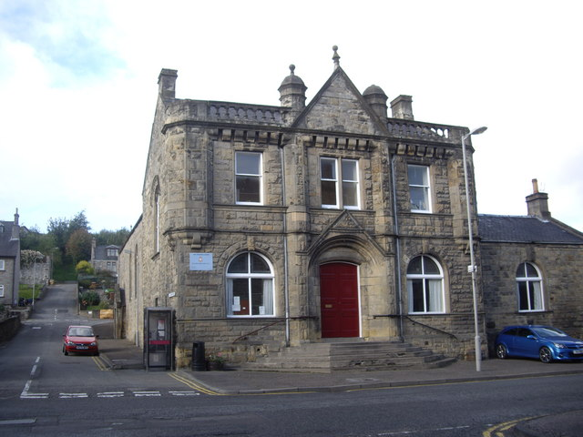 Air Training Corps, Rothes HQ building in High Street.